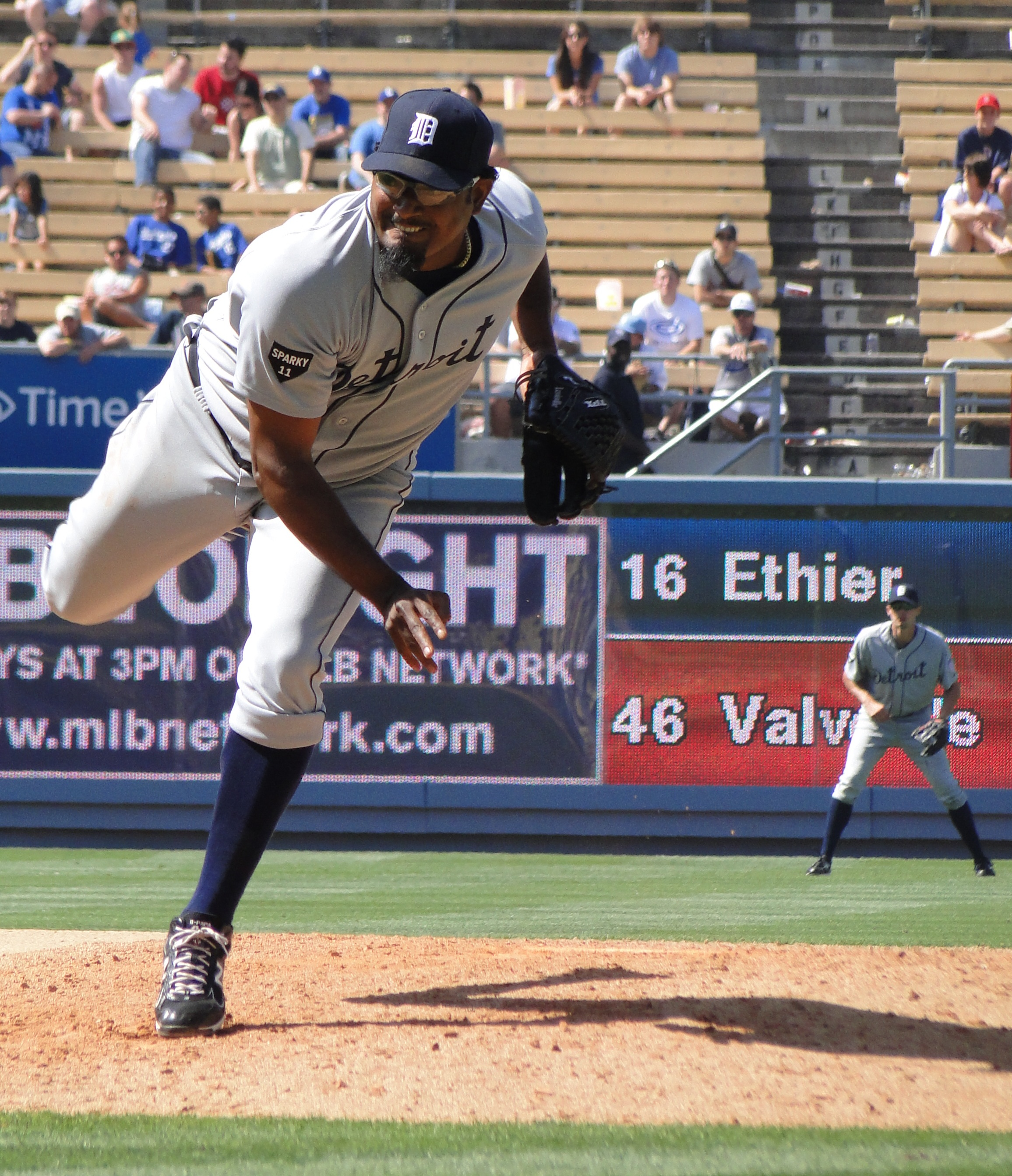 José Valverde at Dodger Stadium.